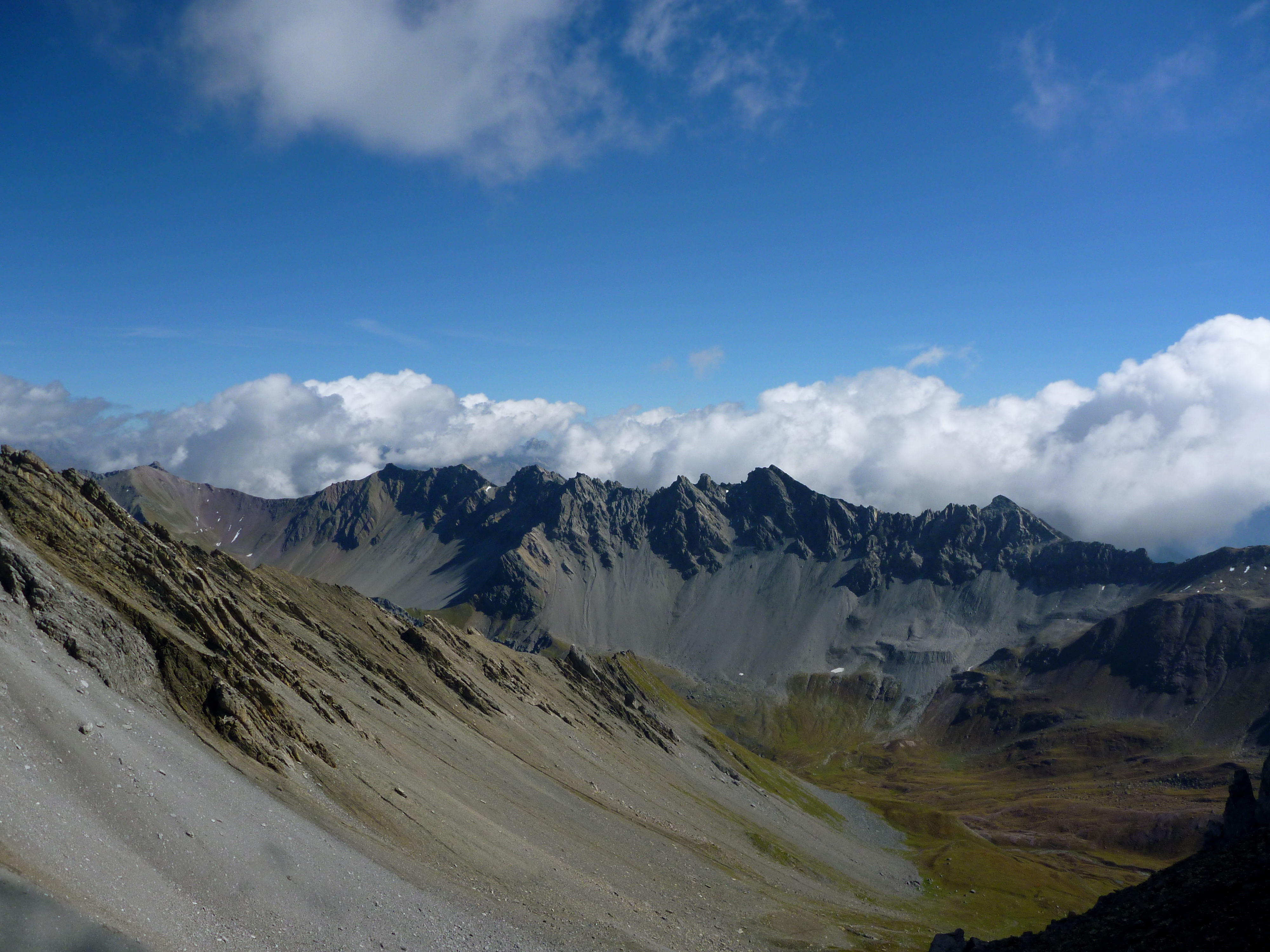 Guggernellgrat of Strela Mountain Chain, Arosa, Switzerland